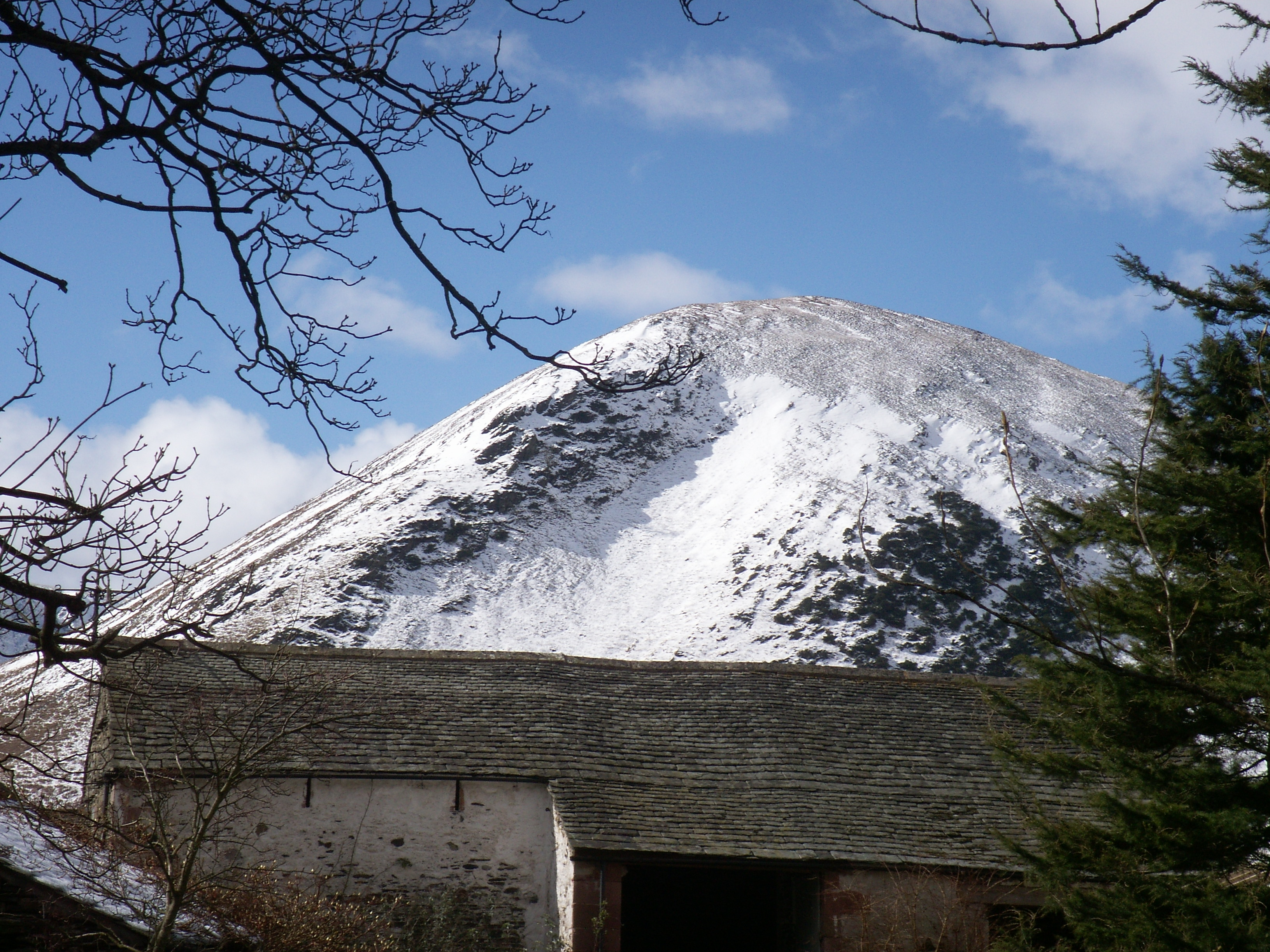 Bowscale Fell from Mungrisdale, English Lake District